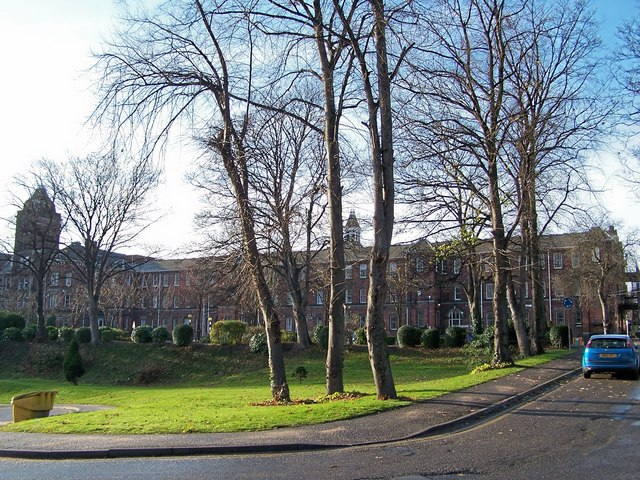 Northern General Hospital, Sheffield. This view shows part of the main buildings which were built in the late 1870's as the Sheffield Union Workhouse. The Clock Tower, on the left of this picture, was the main 'central entrance' and bears the date 1878. I state 'central entrance' as originally another 'wing' matching that shown in the picture went off to the left in this view. The 'wings' contained the main wards for the inmates. The whole building was approximately a quarter of a mile long. Eventually the Workhouse closed and became the Sheffield City Hospital and later Northern General Hospital. 1078483 1078488 1732024